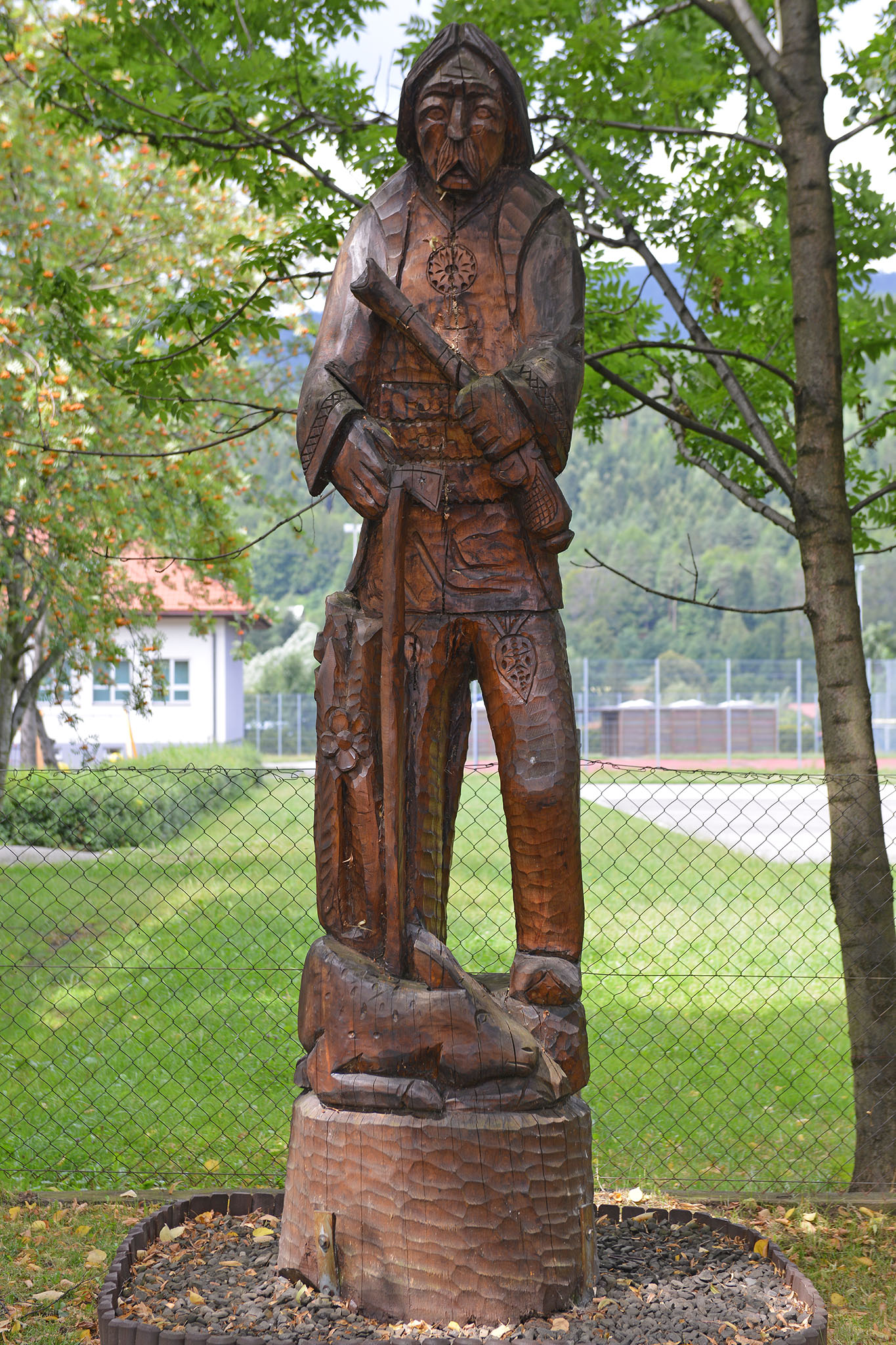 Sculpture, Robbers Avenue, Wegierska Gorka, Beskid Mountains, Poland